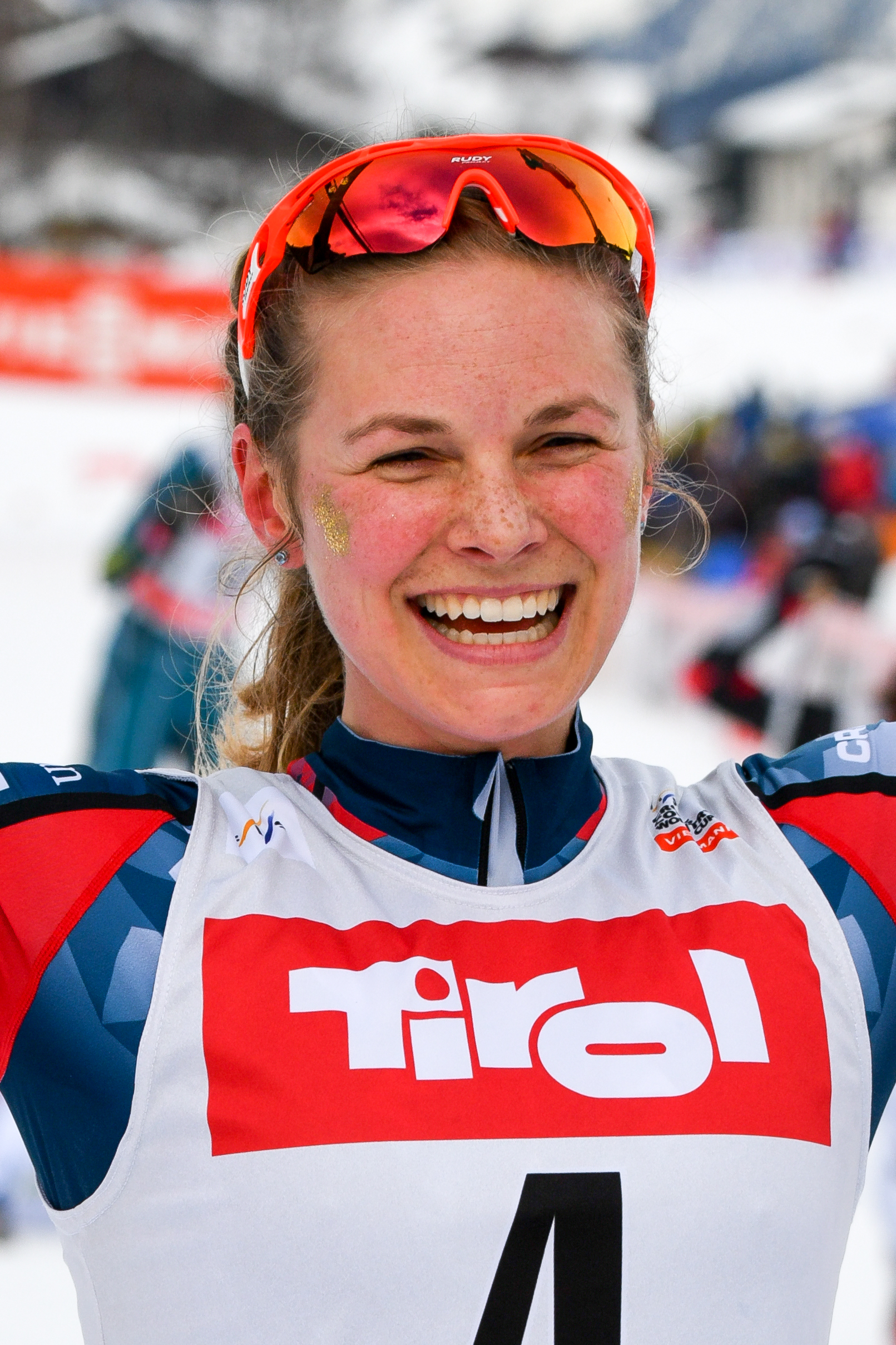 Seefeld-Triple 2018, third day January 28th. Picture shows DIGGINS Jessica (USA).